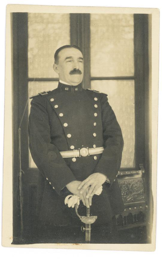 Julián Bourdeu wearing his uniform of Commissary of the Policía de la Capital, while serving on the 45th precinct of Buenos Aires city (Villa Devoto, Villa del Parque and Villa Talar quarters) between 10/28/1922 and 6/15/1926.